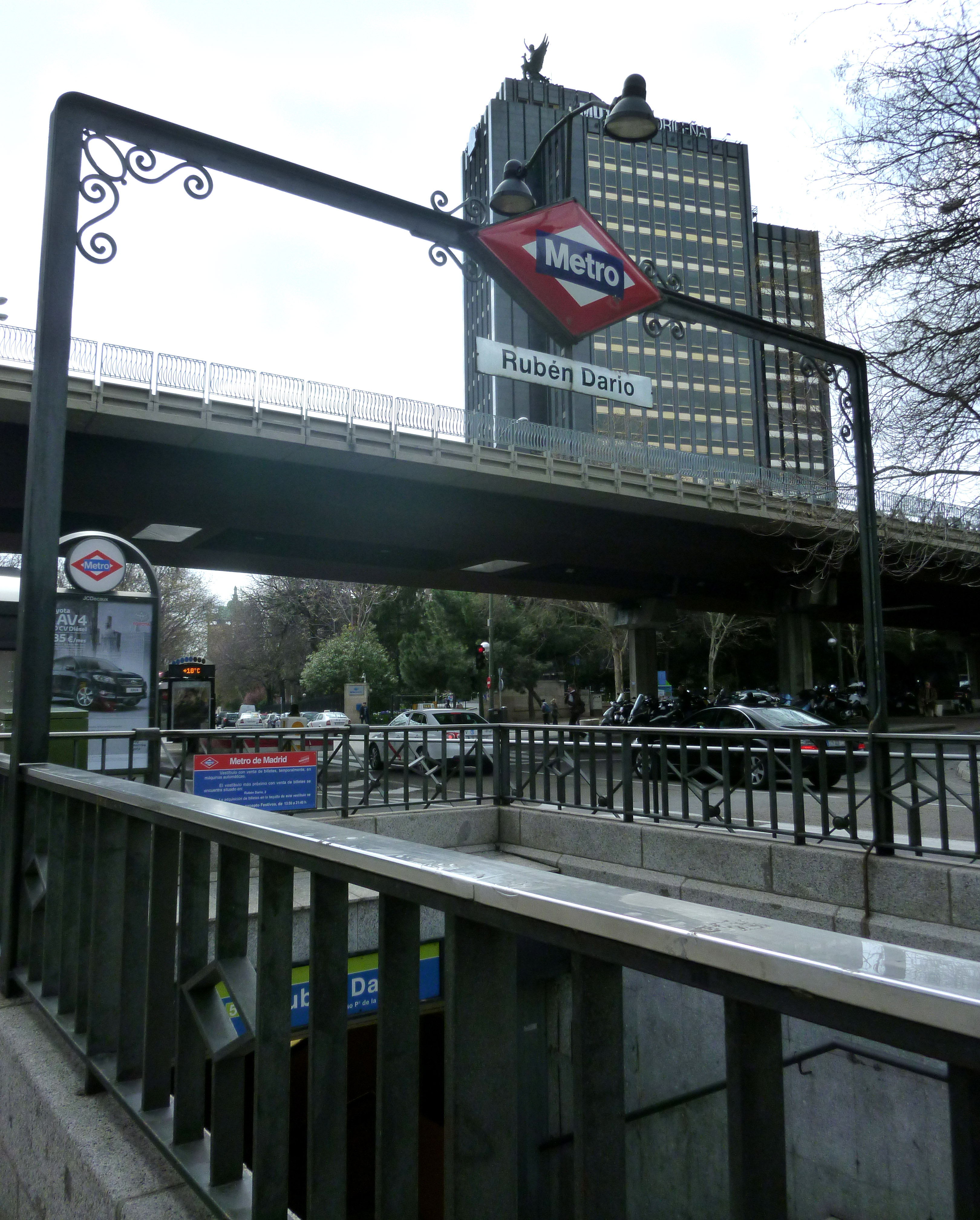 Entrance of Rubén Darío metro station in Madrid (Spain), at 35 Paseo de la Castellana (avenue) in Chamberí district. In the background, Castellana 33 Building.